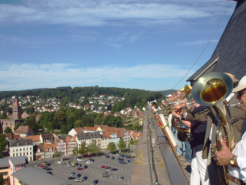 Tower brass band upon the spire of Bad Hersfeld. Playing eyery Sunday 9.30 am